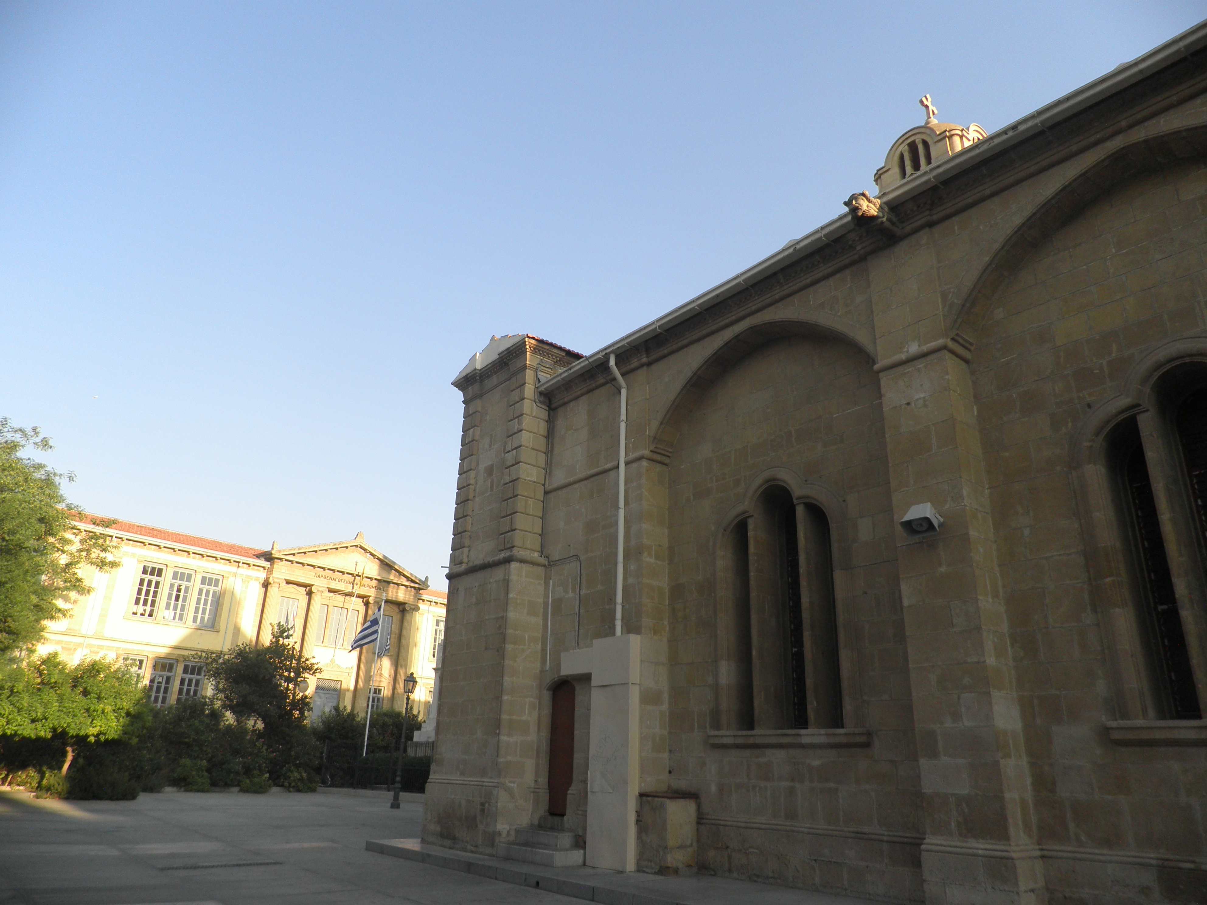 Faneromeni Square Nicosia